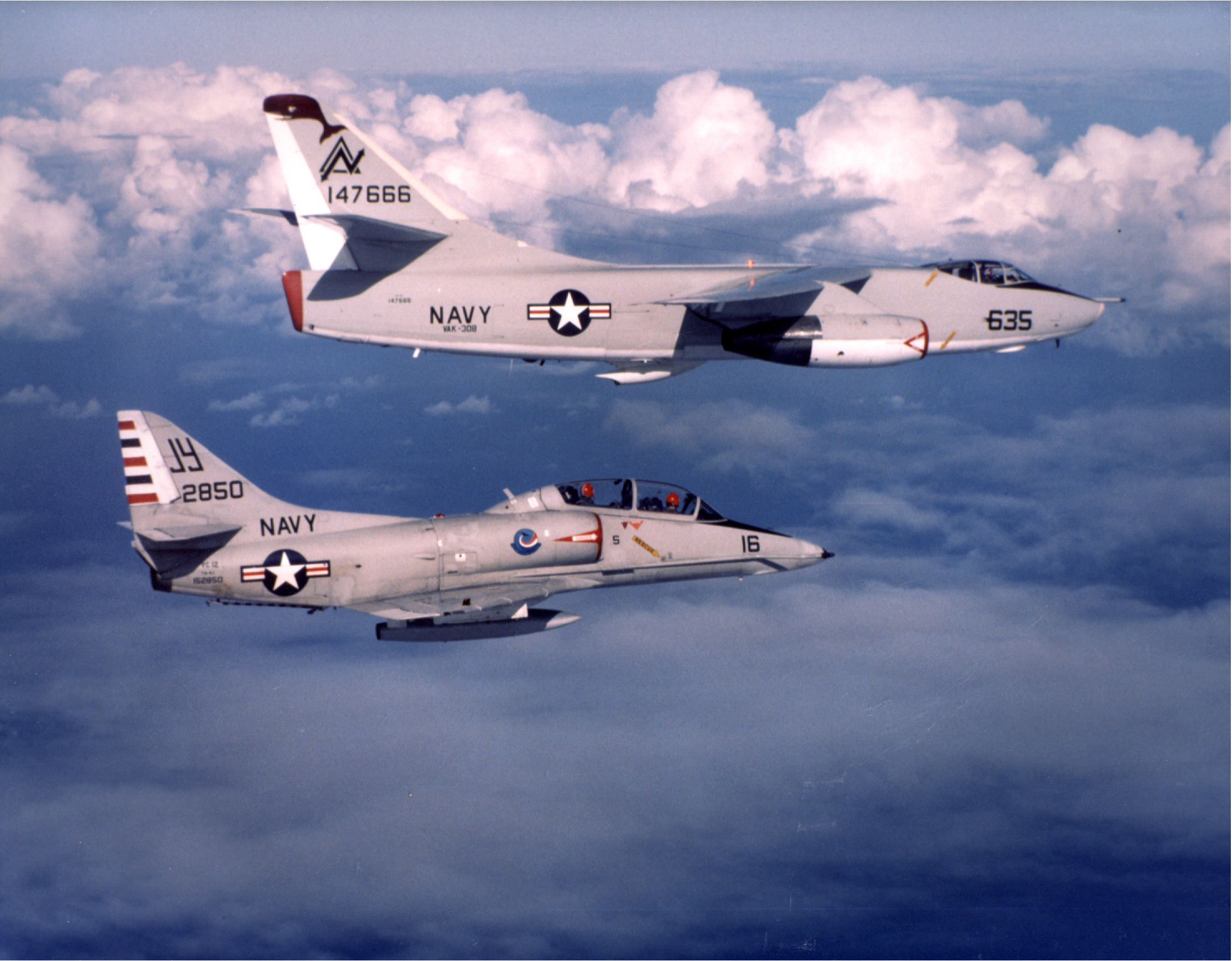 A U.S. Navy Reserve Douglas KA-3B Skywarrior (BuNo 147666) of Tactical Aerial Refueling Squadron VAK-308 with in flight with a Douglas TA-4J Skyhawk (BuNo 152850) of Composite Squadron VC-12 near Roosevelt Roads, Puerto Rico.